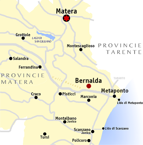 Position of the town Bernalda map created by user:Idéfix